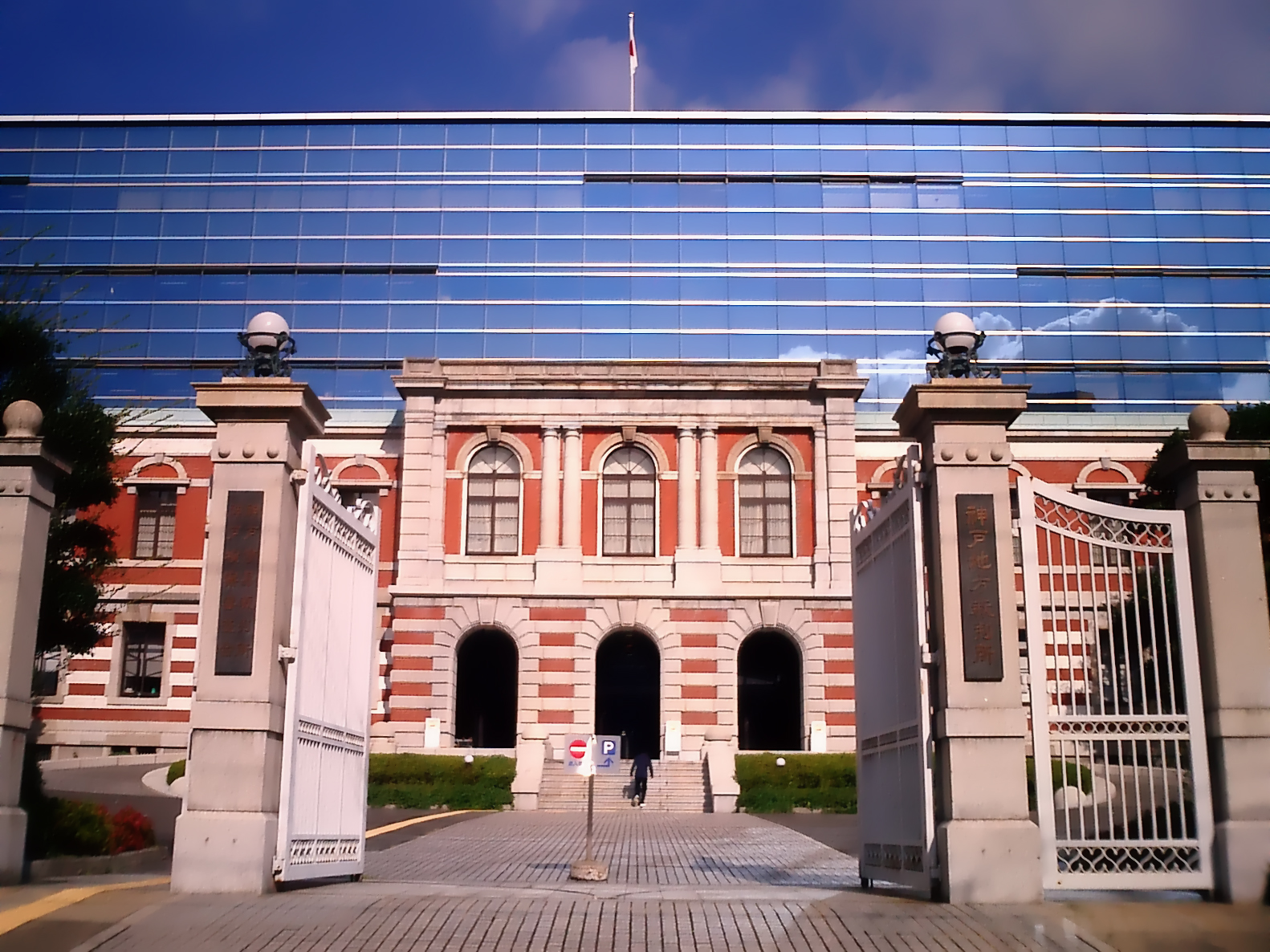 Kobe-District-Court